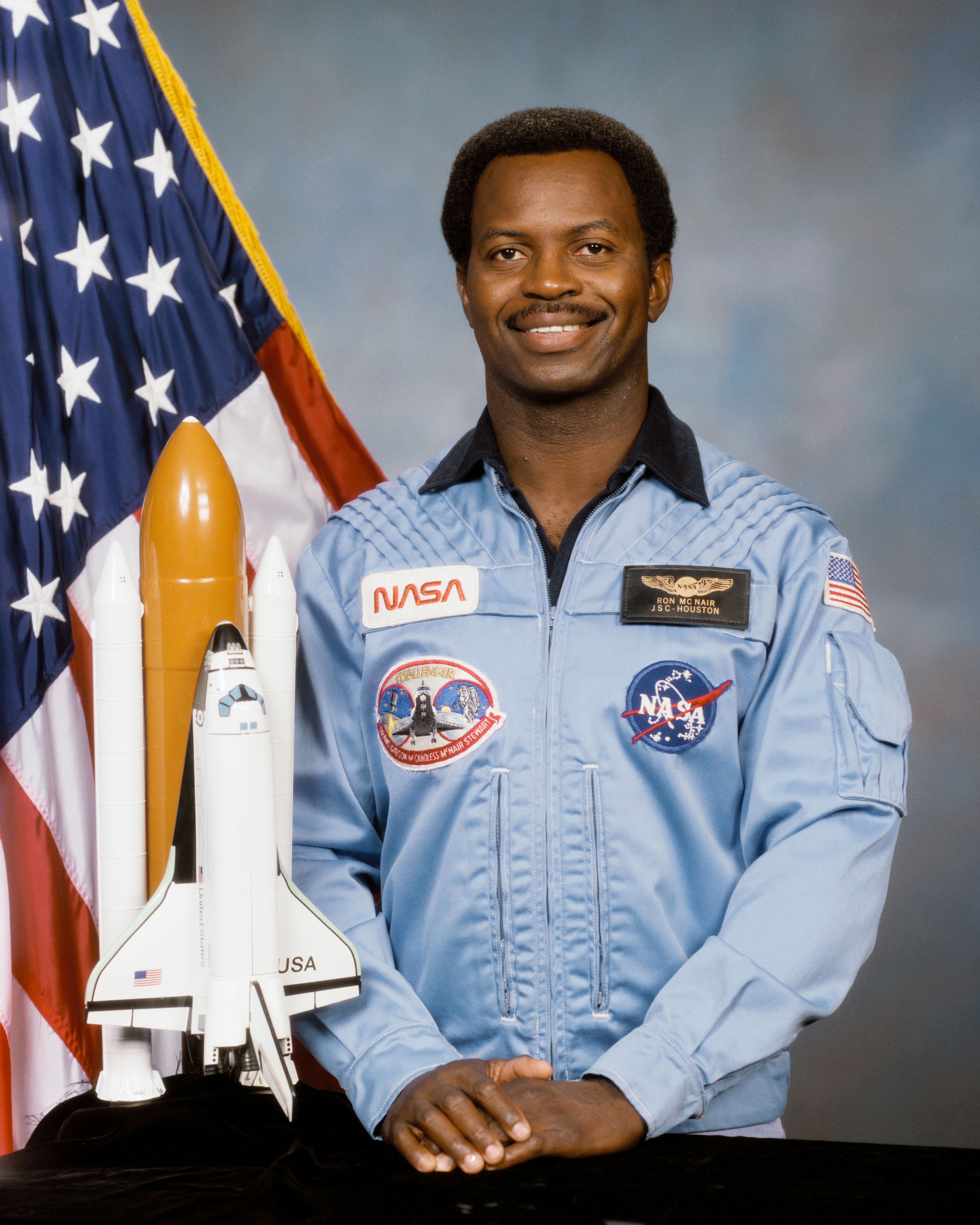 Ronald E. McNair (Ph.D.), NASA Astronaut Official portrait photograph of Astronaut Ronald E. McNair. Astronaut McNair is in the blue Shuttle flight suit, standing in front of a table which holds a model of the Space Shuttle. An American flag is visible behind him.